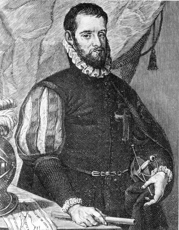 Woodcut carving of Pedro Menendez de Aviles